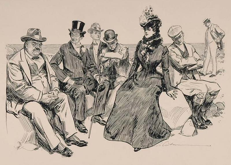 At the Beach, a 1901 print by Charles Dana Gibson. The suggestion is that the men might be inclined to enjoy the beach by taking off their clothes to swim, but they do not because a woman is present and such would be considered improper in mixed company-- but the men also think it would be rude to ask the woman to leave, and so have frustrated expressions.